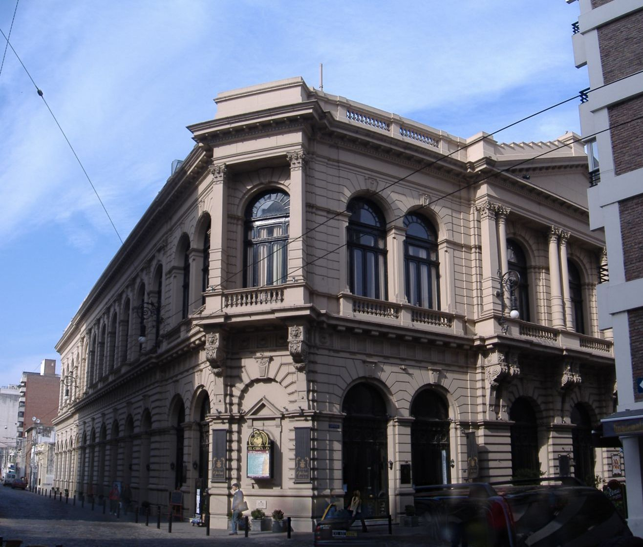 Teatro El Círculo, a theater in Rosario, Argentina. Assembled from several pictures using AutoStitch.